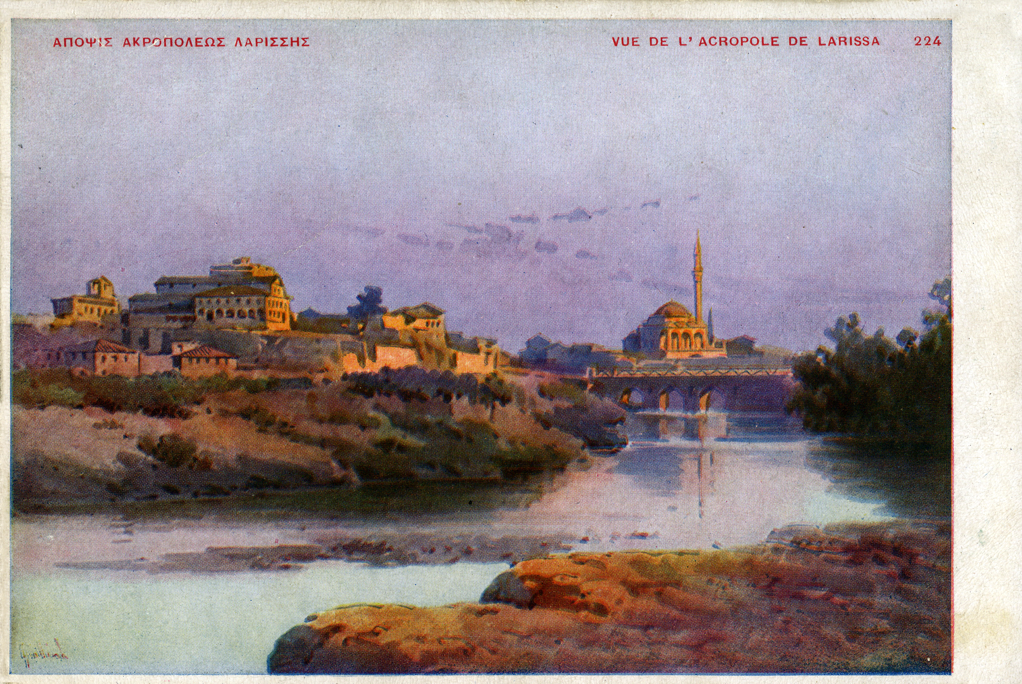 View of the Acropolis of Larisa. Postcard published by Aspiotis. Reproduction of a painting by Angelos Giallinas.